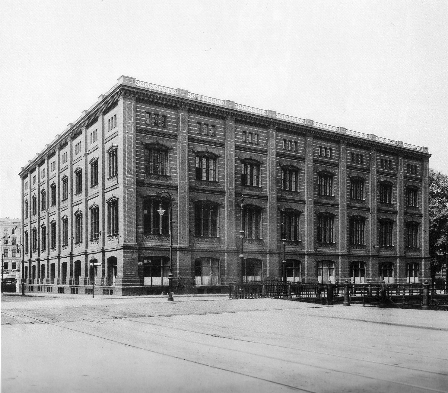 The "Bauakademie" in Berlin (Germany), architect: Karl Friedrich Schinkel. The building, erected 1832-36, were damaged in World War II and broken down 1961/62.